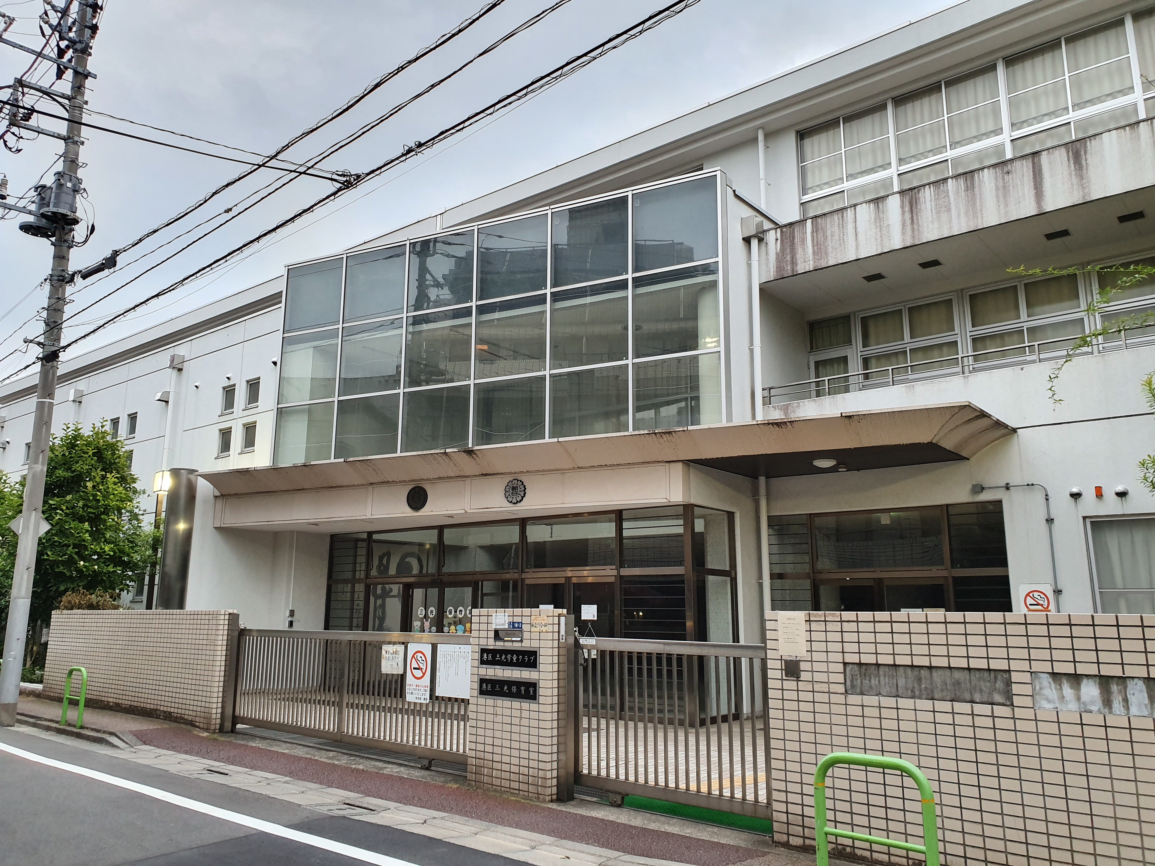 primary school